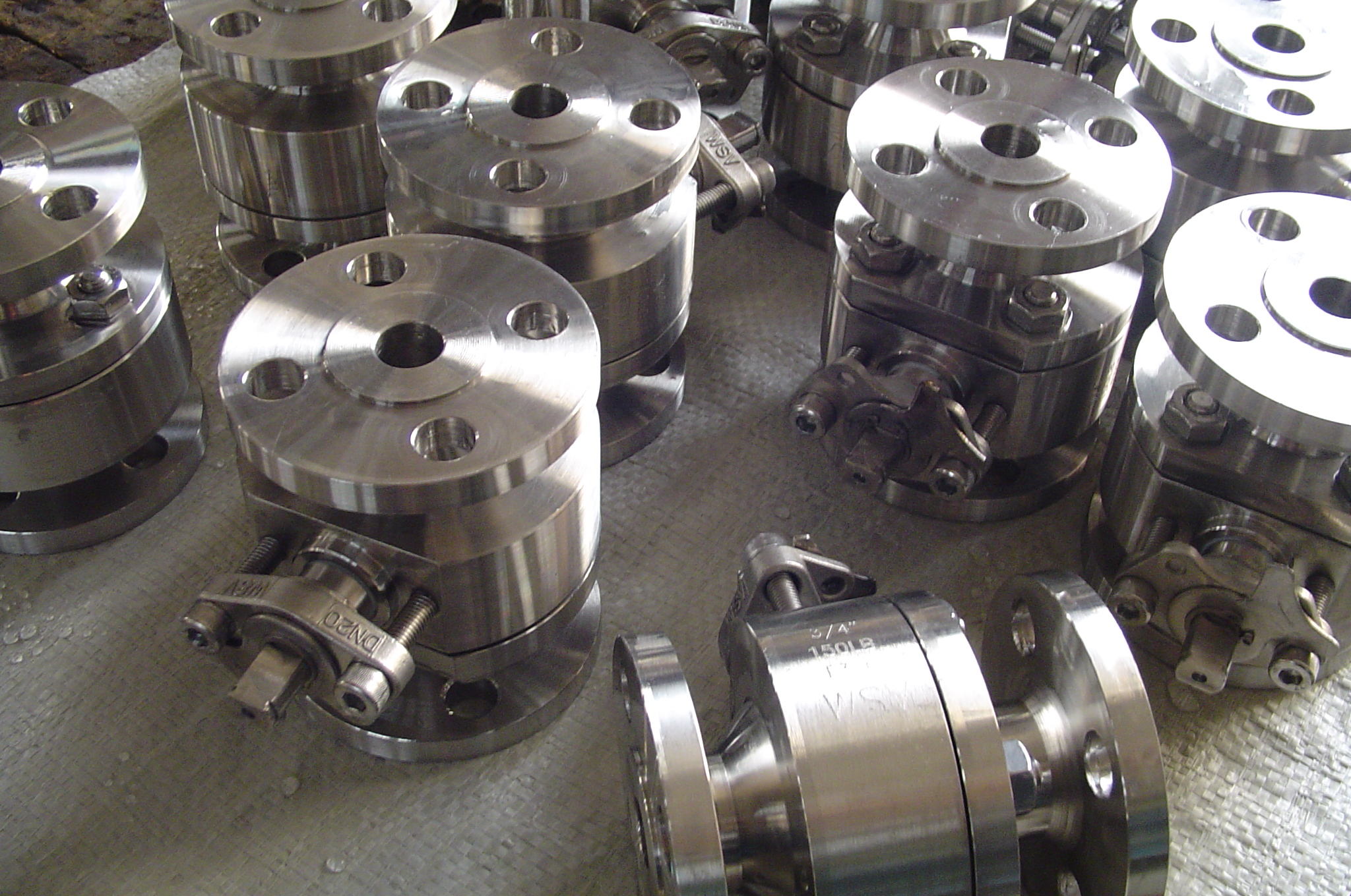 A series of duplex ball valves.